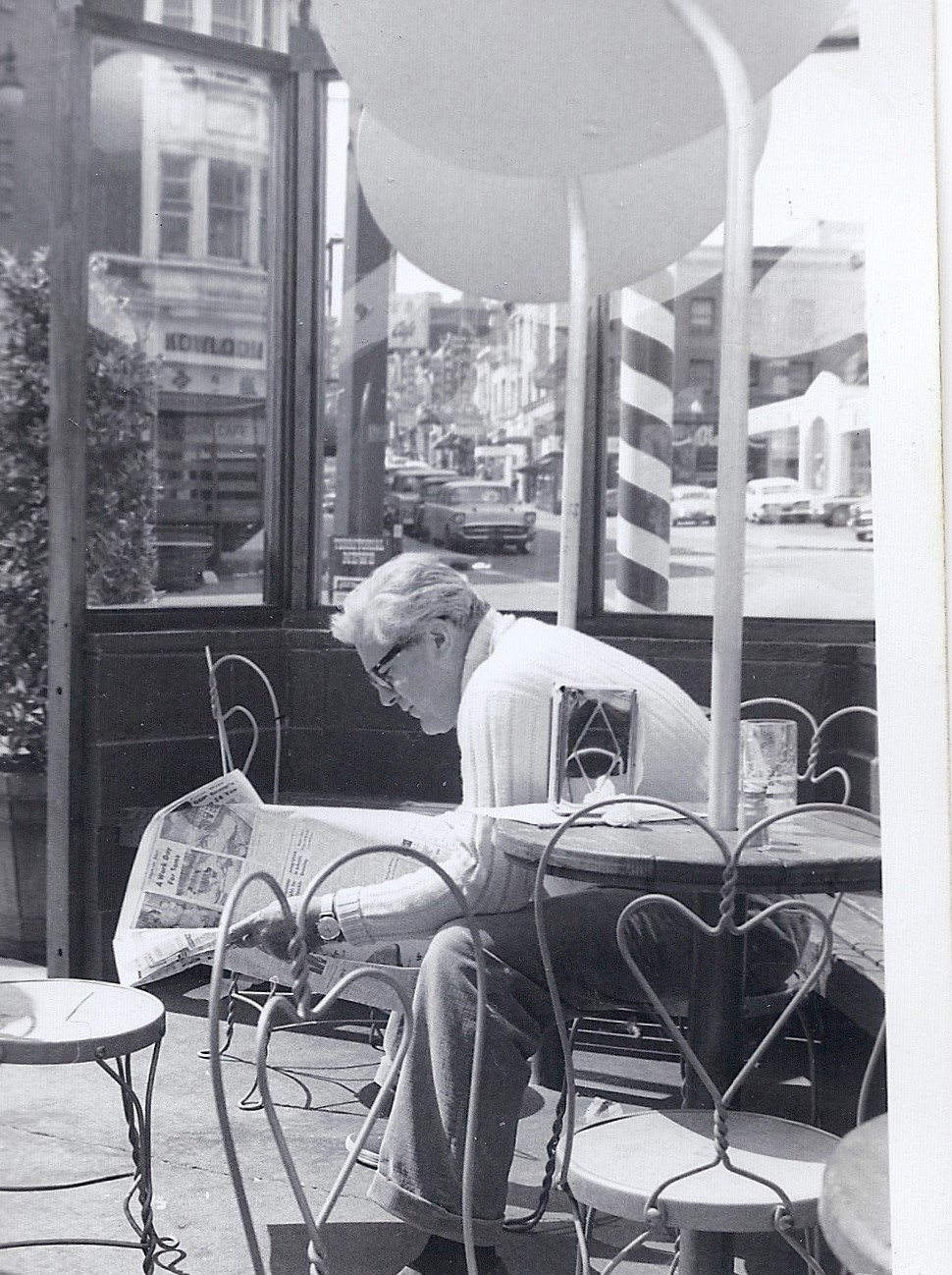 Melvin Belli, Clown Alley, San Francisco, 1964